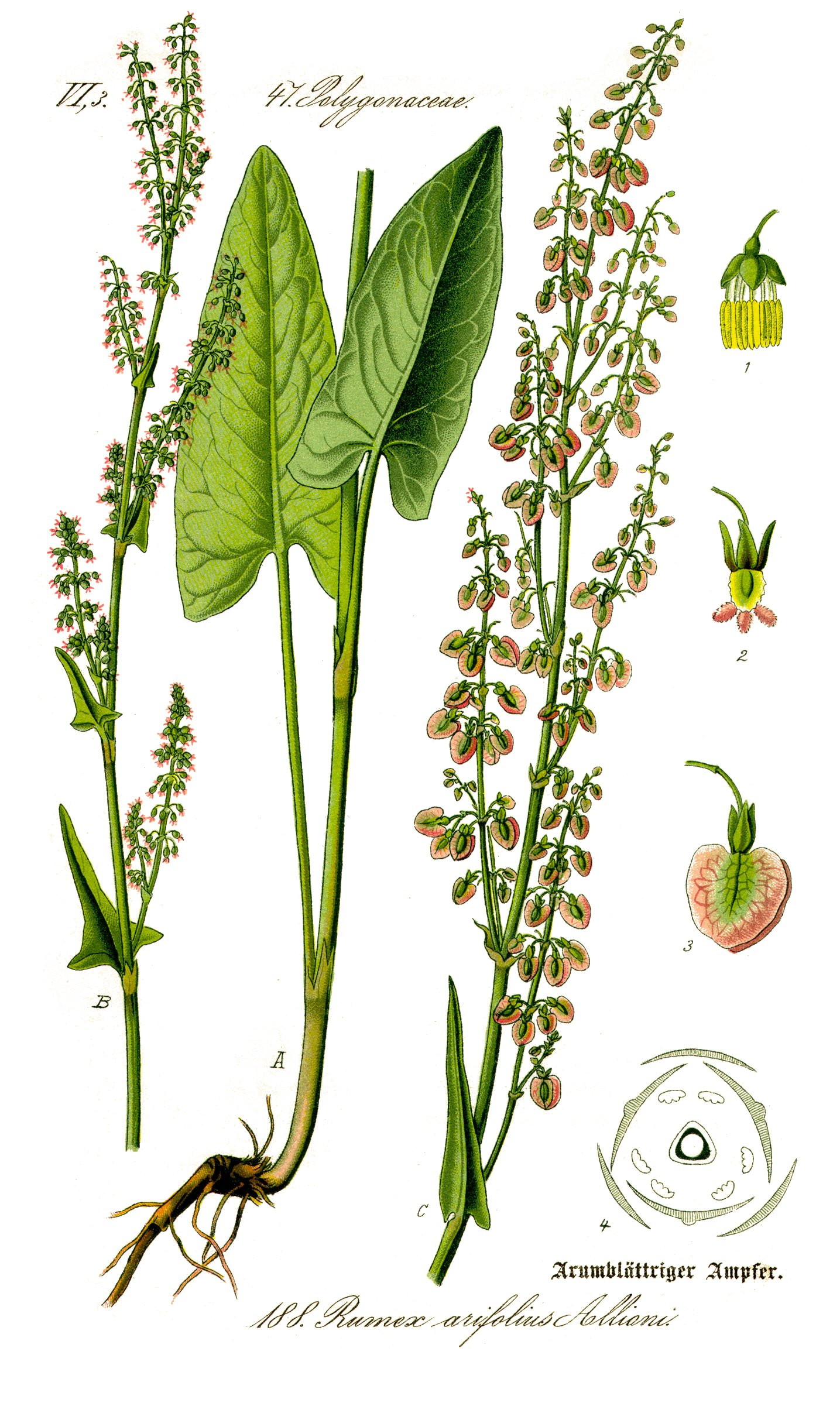 Name Rumex arifolius (syn. R. alpestris) Family Polygonaceae